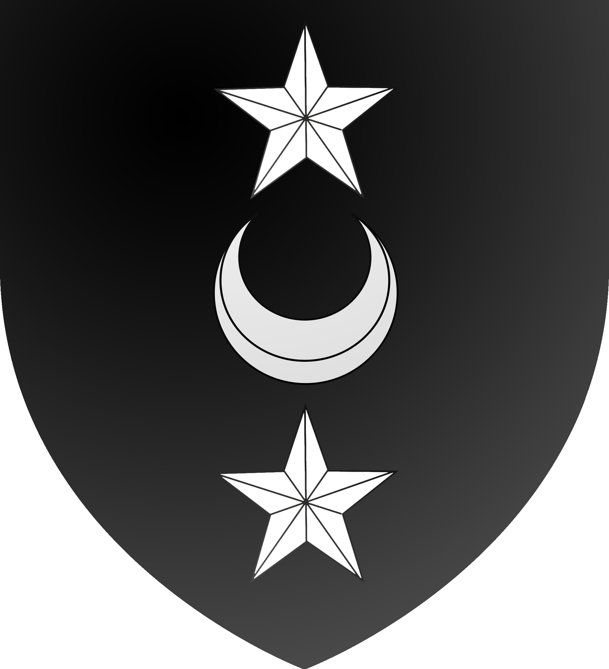 Blazon of the Jermyn family as described in The Visitation of Suffolk 1561: "Sable a crescent between two mullets in pale Argent (Jermyn)"